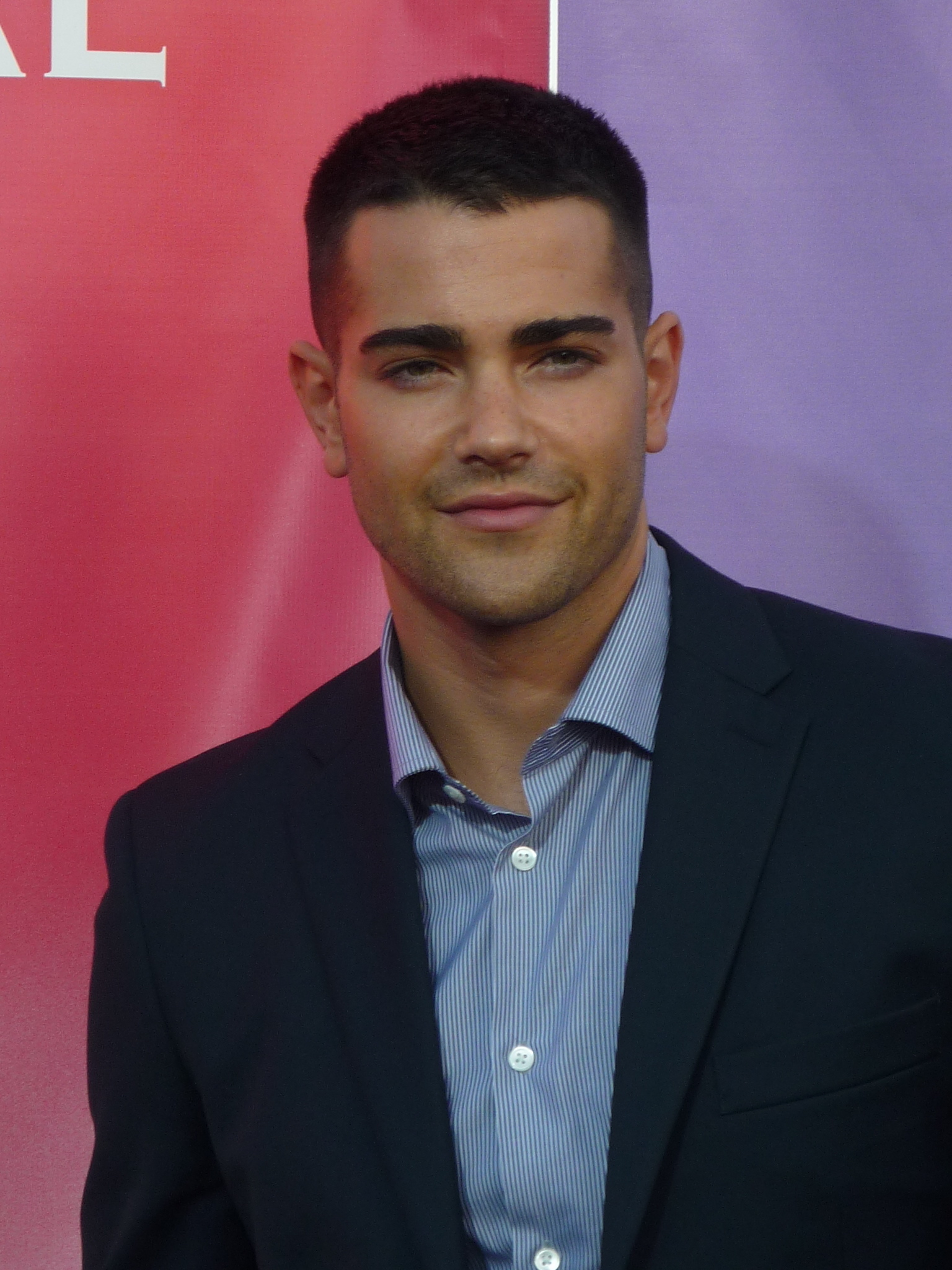 Actor Jesse Metcalfe on the red carpet for NBC Universal's 2010 Television Critics Association Summer Party on July 30, 2010 in Beverly Hills, California